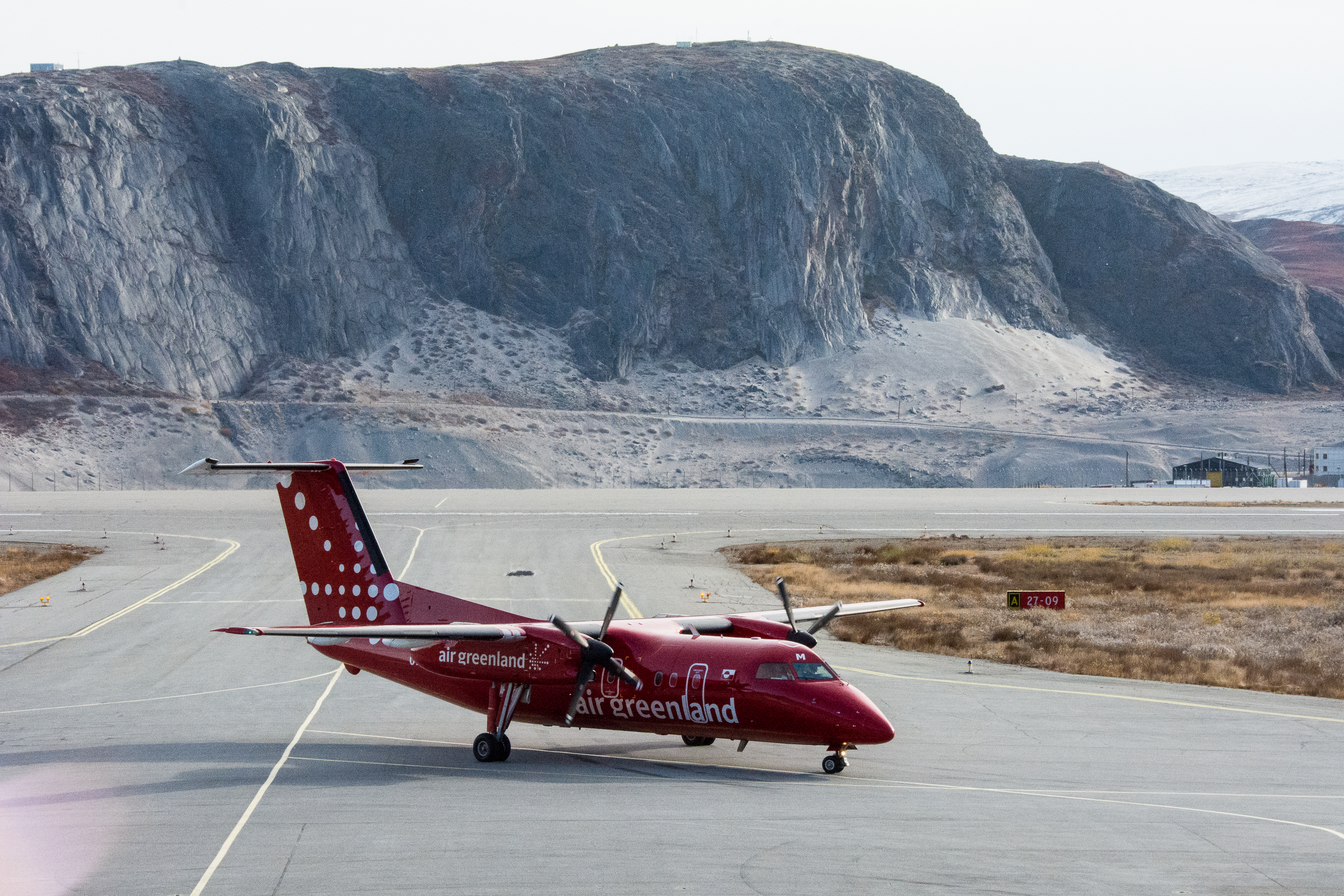 Air Greenland de Havilland Canada/Bombardier Dash 8 Q200 aircraft at KSJ Kangerlussuaq Airport on September 21, 2015.